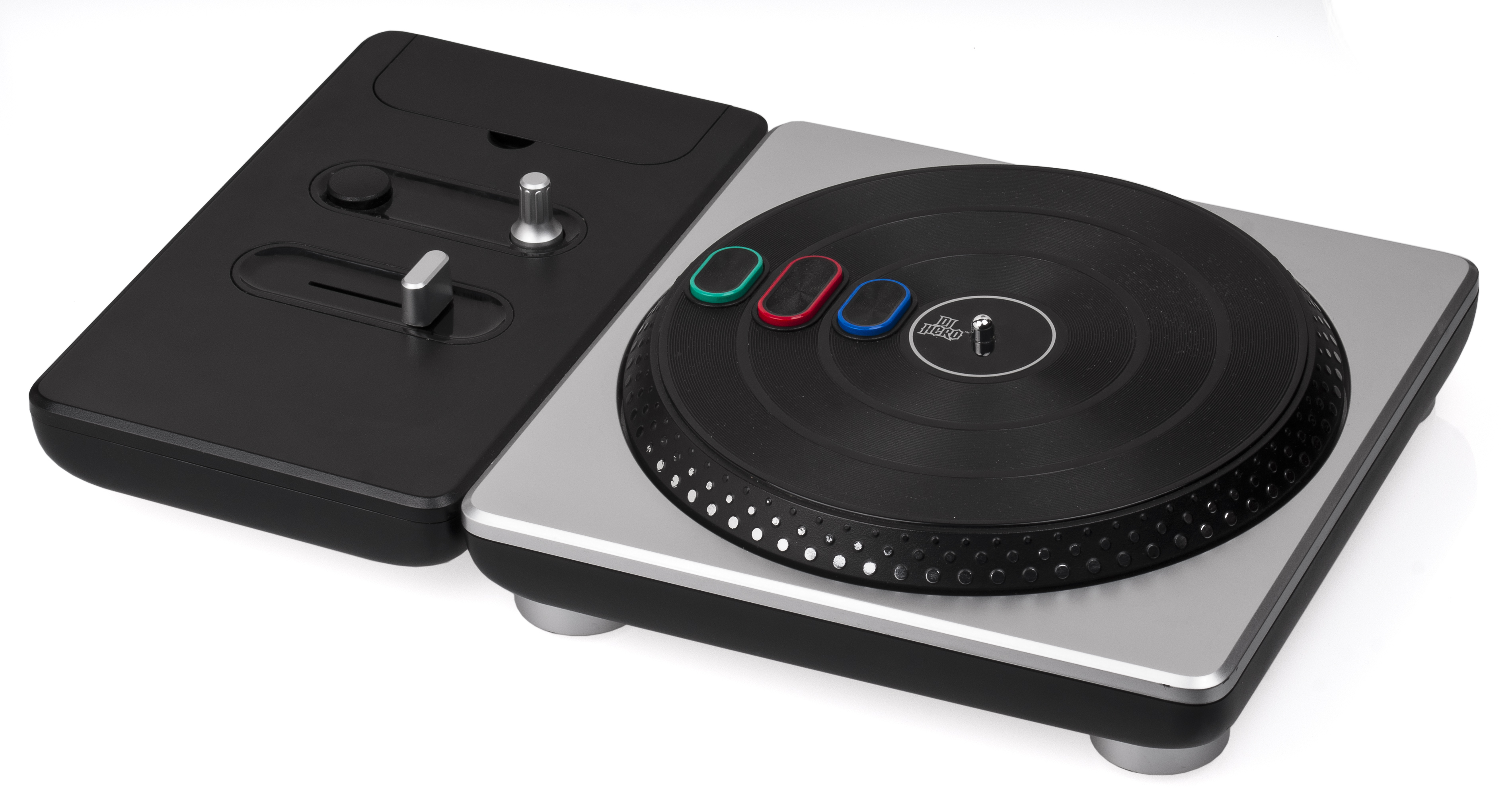 The DJ Hero turntable controller, made by Activision. DJ Hero is a game that features stylized, virtual DJ-ing similar to the gameplay of Rockband and Guitar Hero. The game requires a specialized controller that was packaged with the game. This is a controller for the XBox 360 version of the game, and the 360 controls can be accessed under the flap on the top left. Of note is that the black unit on the left with the slider controls is removable and its orientation can be reversed, making the controller ambidextrous.